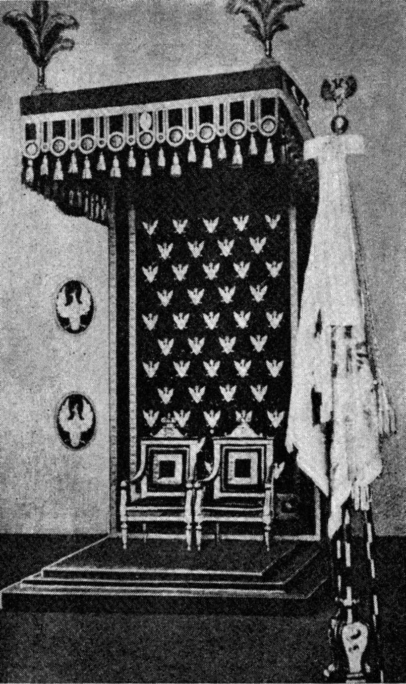 Throne of Stanisław Augustus Poniatowski displayed in the Kremlin, Moscow. In the 1920s the Soviet Union government returned it to Poland, yet it was deliberately destroyed by the Germans during the World War II (the eagles were taken as a souvenir by German officers).[1][2]